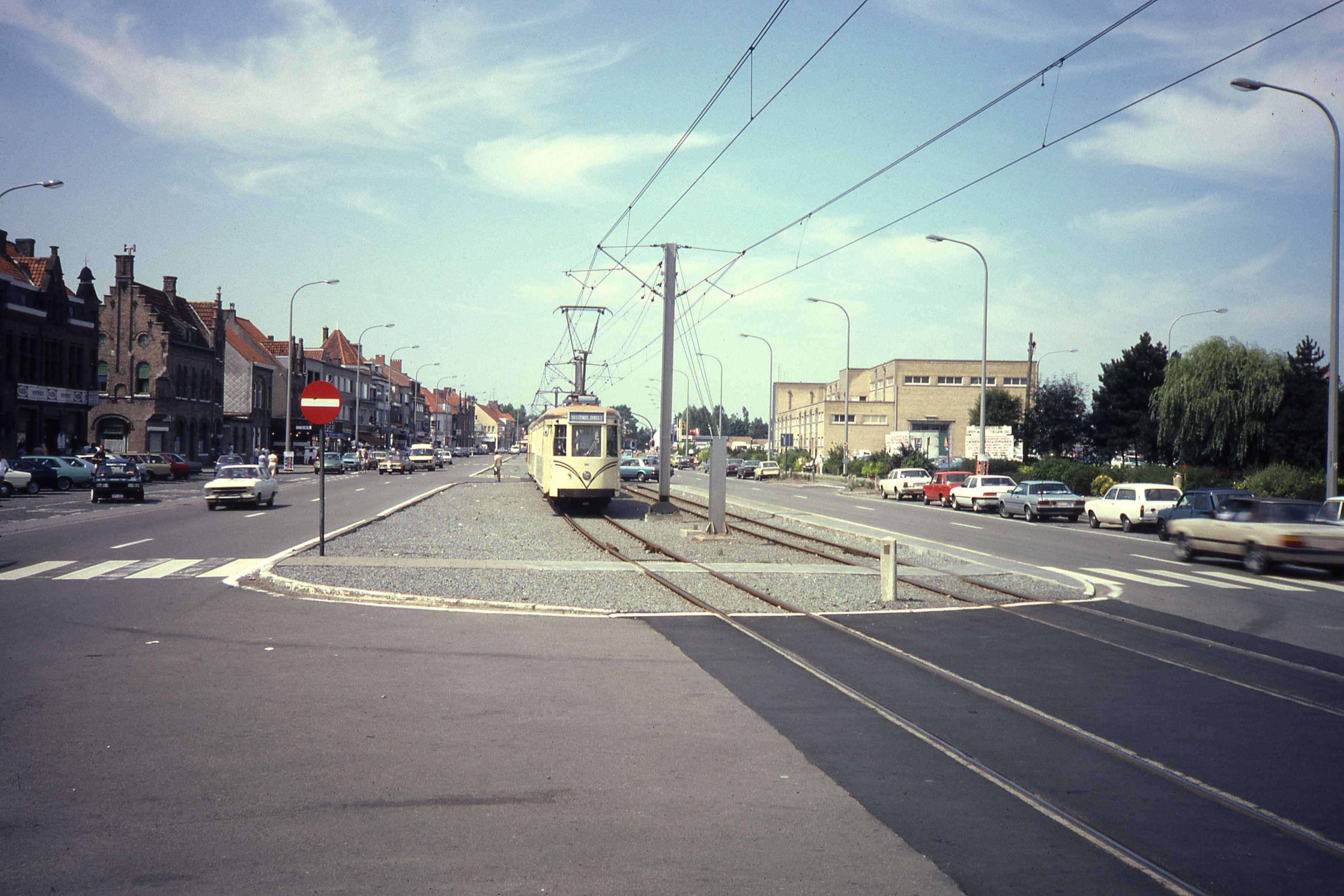 NMVB tram in Nieuwpoort (Type S)